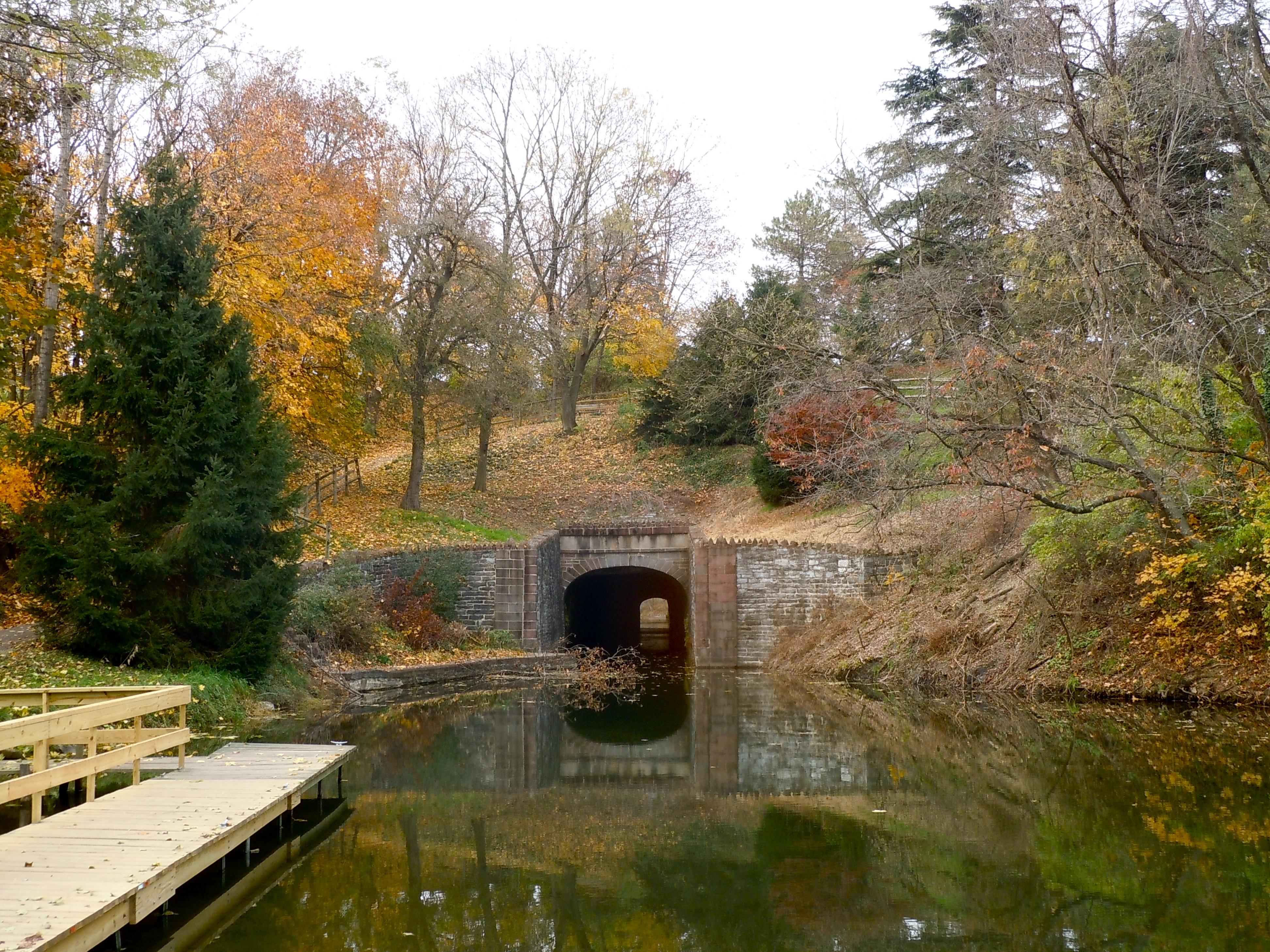 National Historic Landmark Union Canal Tunnel on the NRHP since October 1, 1974. Located west of Lebanon off Pennsylvania Route 72 in a park that can be accessed from Tunnel Hill Road or from the other side Union Canal Road, North Lebanon Township, Lebanon County, Pennsylvania. This is the south portal (canal comes in from the east and takes a 90 degree turn north at the tunnel). The light at the end of the tunnel, 700+ feet away, can be seen in this photo.